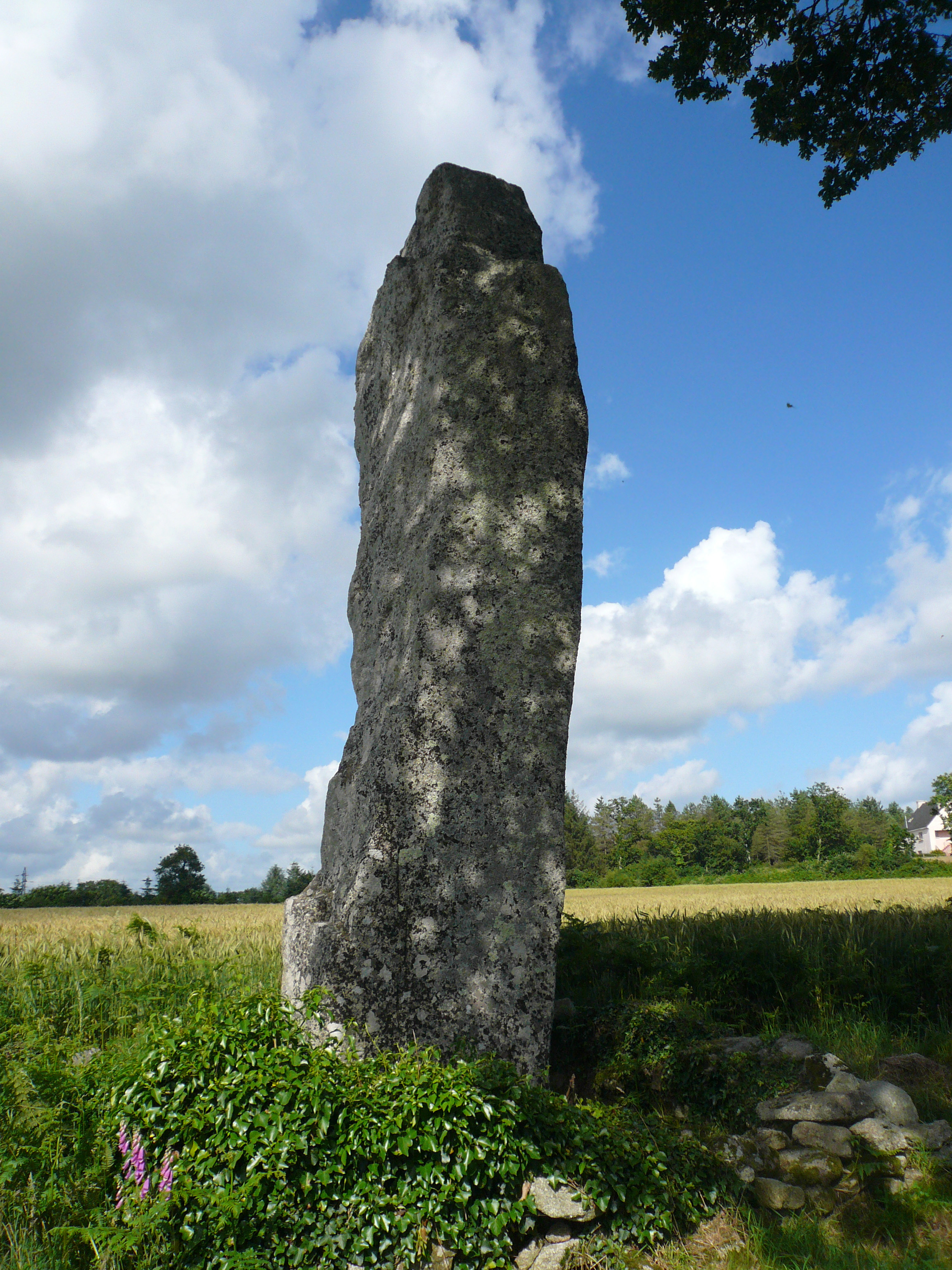 St. John's menhir in Scaër, Finistère, Brittany, France.